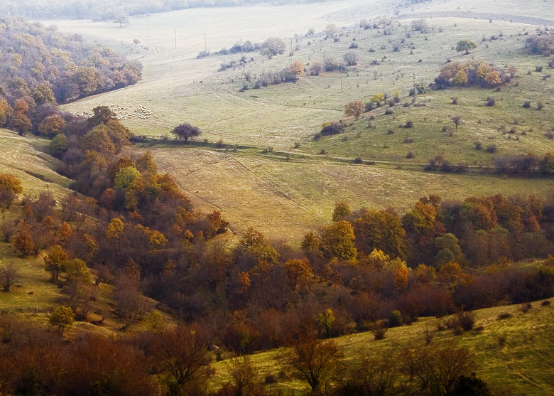 Surroundings of Gaberovo village, Burgas District, Bulgaria